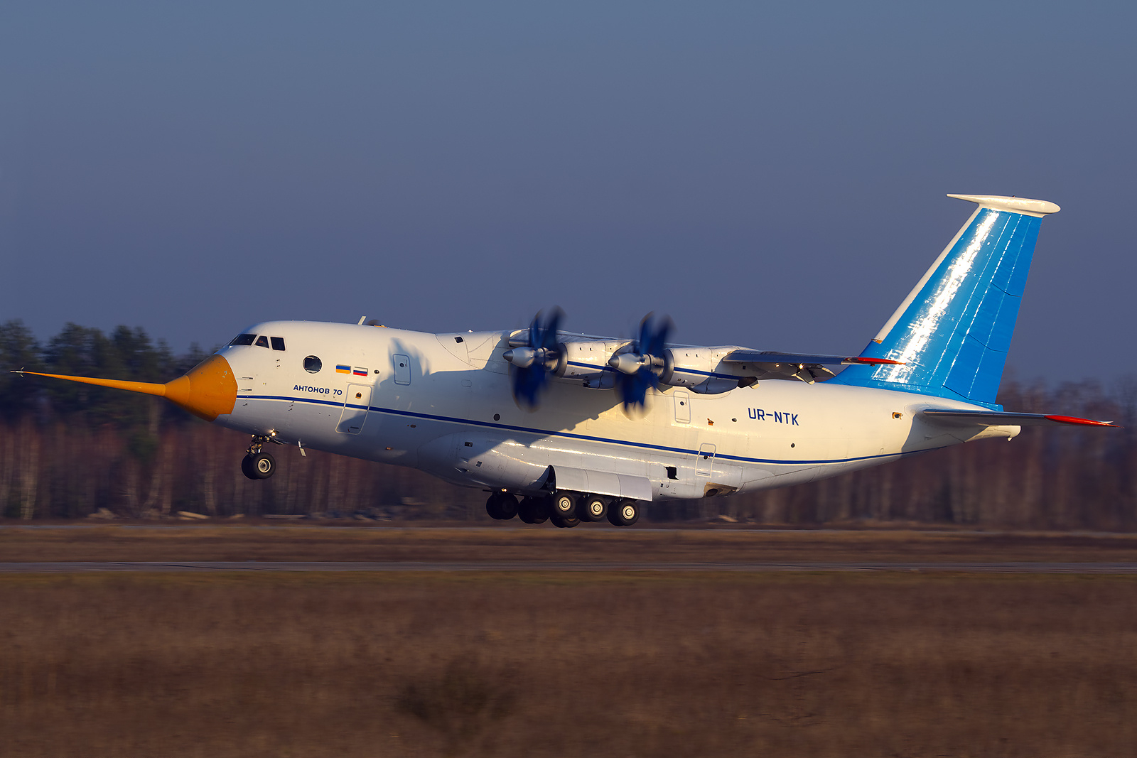 Landing of Antonov An-70 transport aircraft